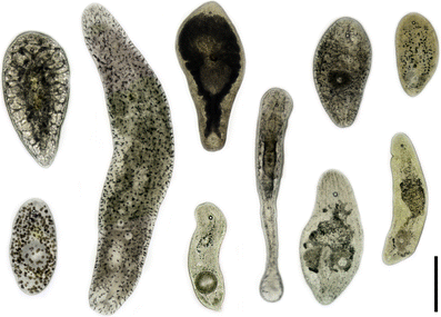 Images of various live acoels found in a beaker of sublittoral sand from the Indian Ocean. Animals are oriented with the anterior end to the top. Note the statocyst in all and mature oocytes in some animals. Scale bar: 200 μm